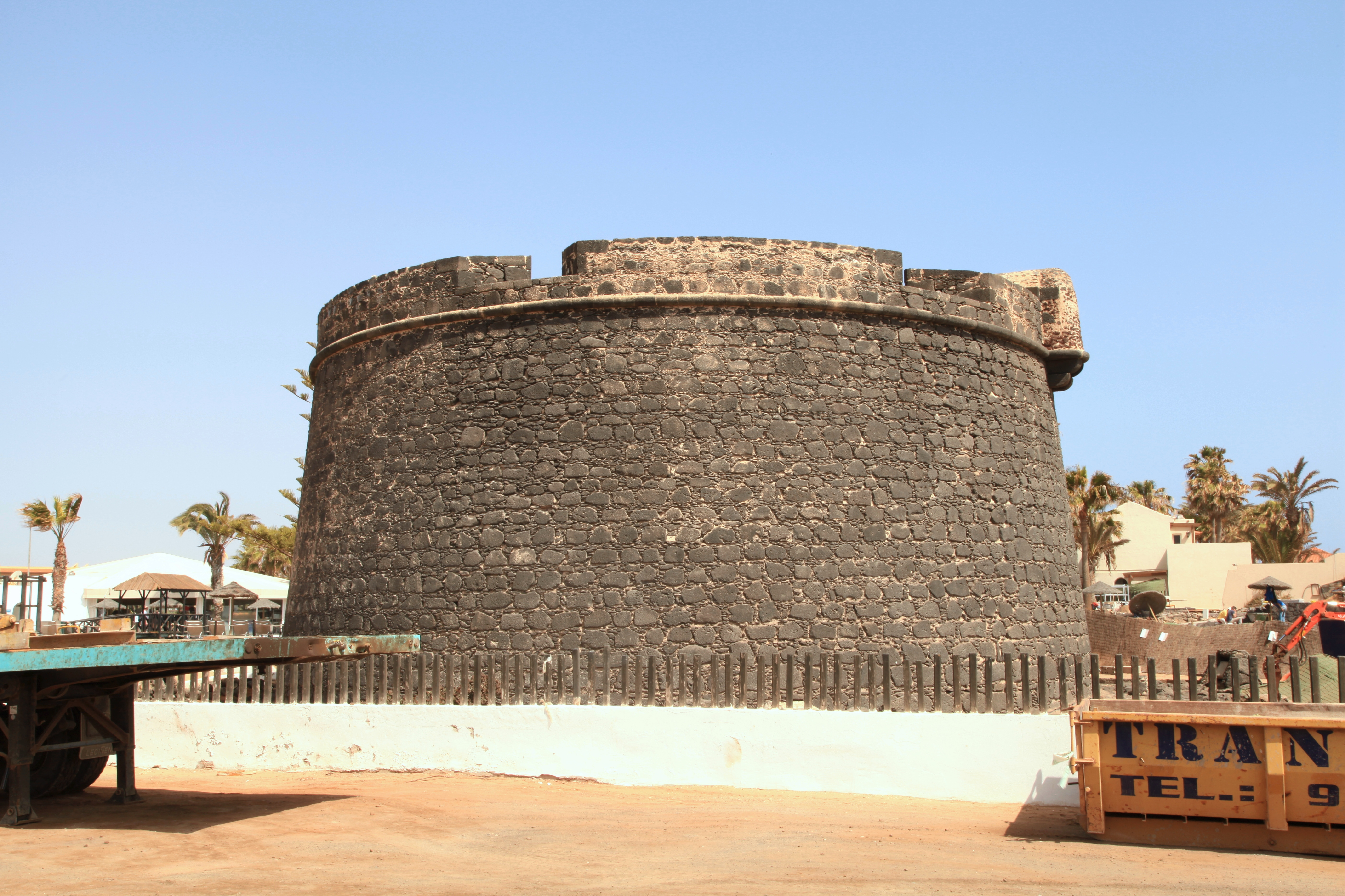 Castillo, occupied by a hotel at Calle del Castillo, Caleta de Fuste in Antigua, Fuerteventura, Canary Islands